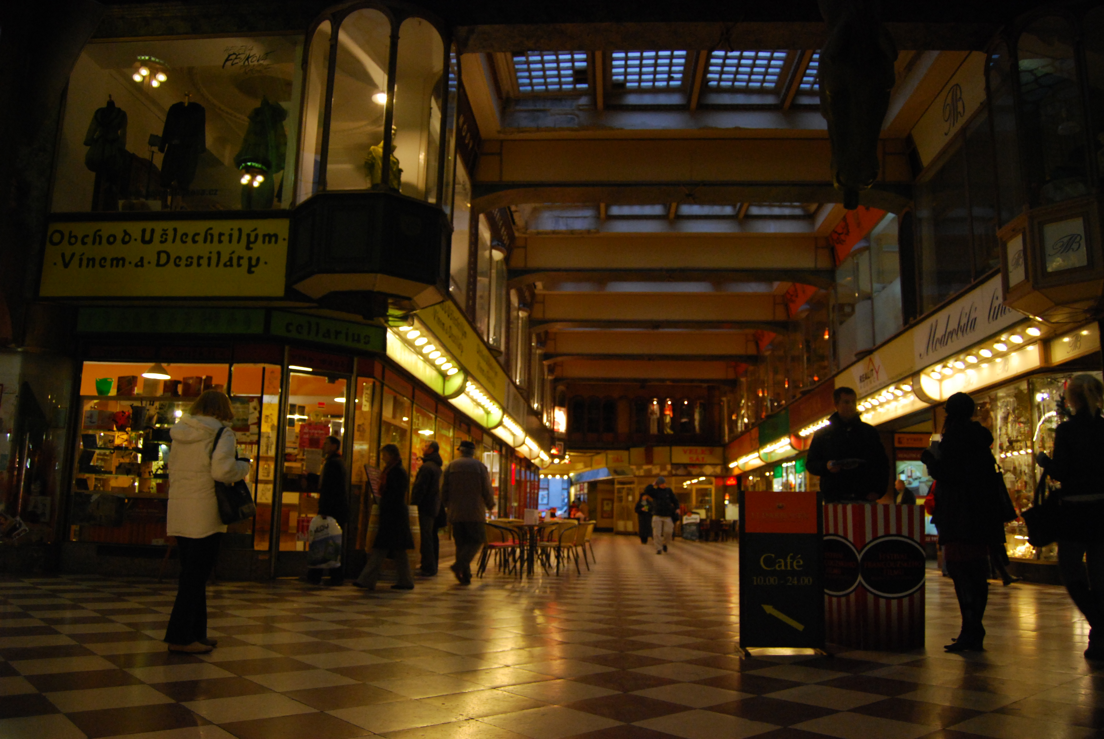 Palace Lucerna in Prague, Czech Republic.